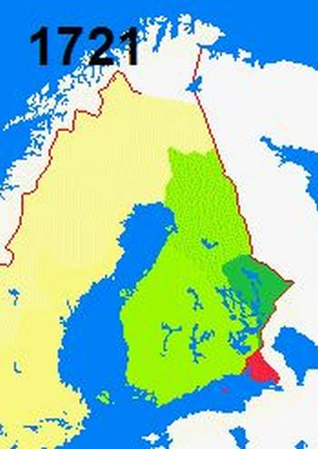 Border changes in Finland 1721